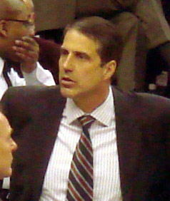 Randy Wittman, coach of the Minnesota Timberwolves, during a 2007-08 NBA season game against the Phoenix Suns at the Target Center arena in Minneapolis, Minnesota. The Wolves would win, 117–107.